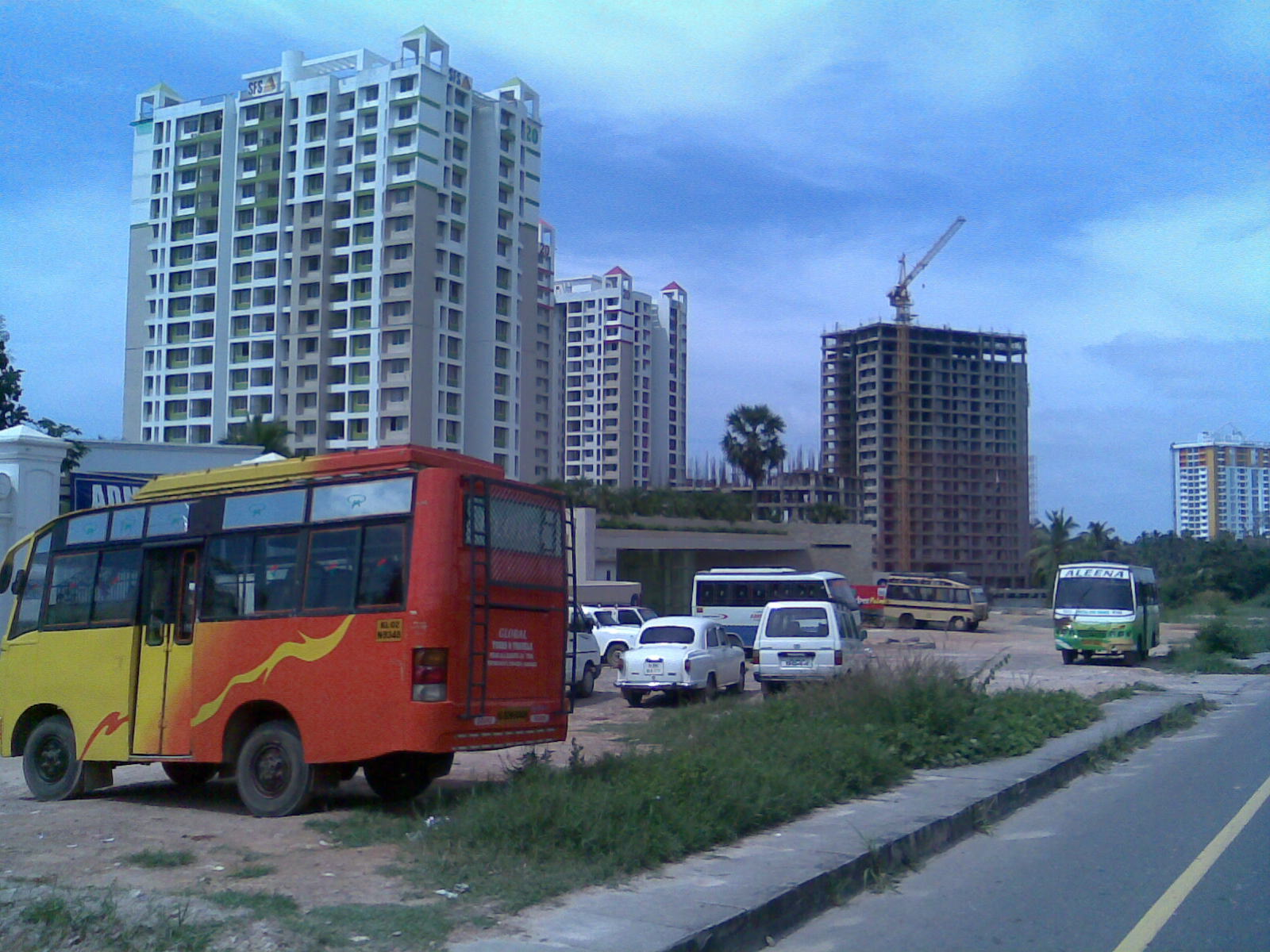 Apartments under construction in Thiruvananthapuram, Kerala, India.